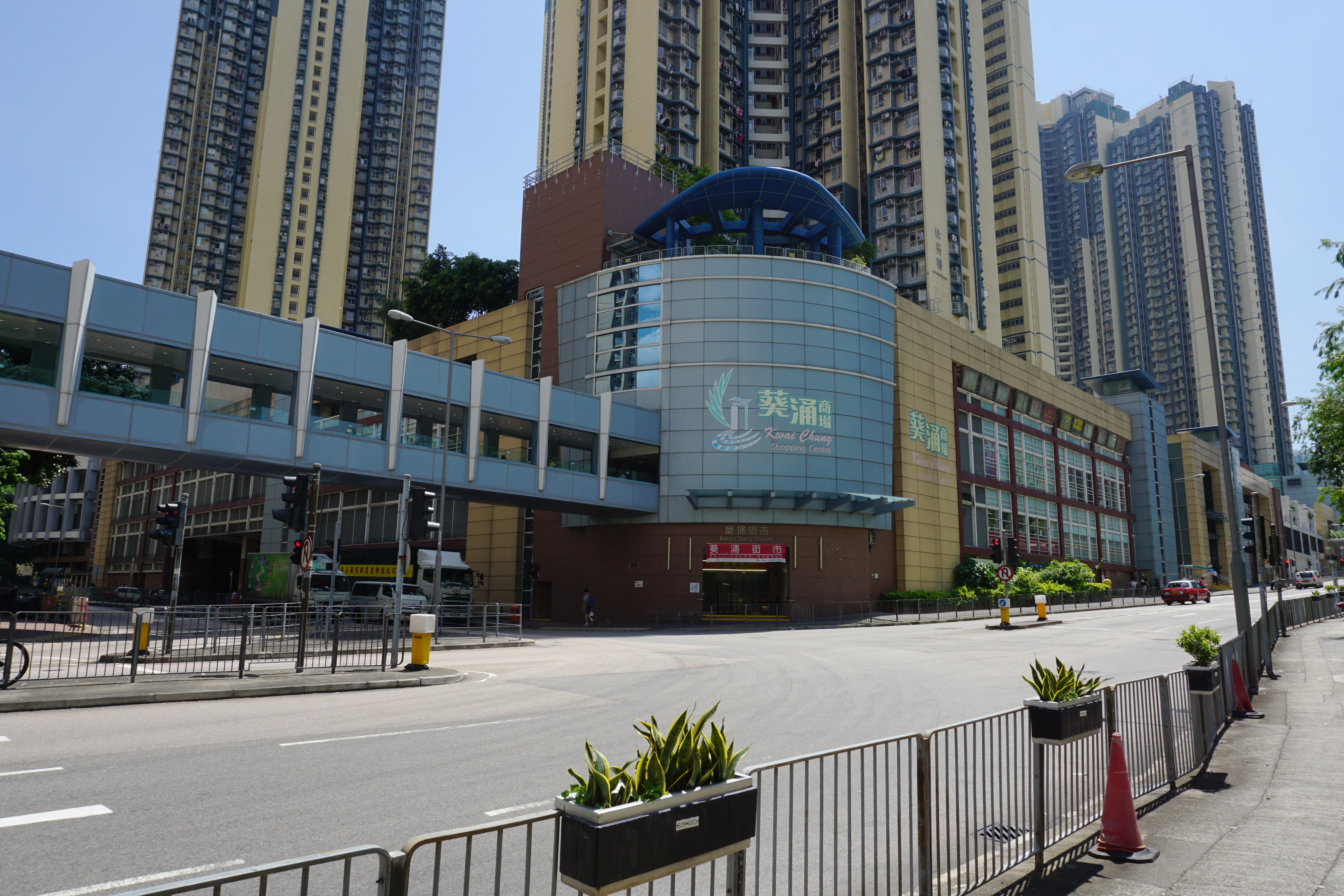 Kwai Chung Shopping Centre in Kwai Chung, Hong Kong.